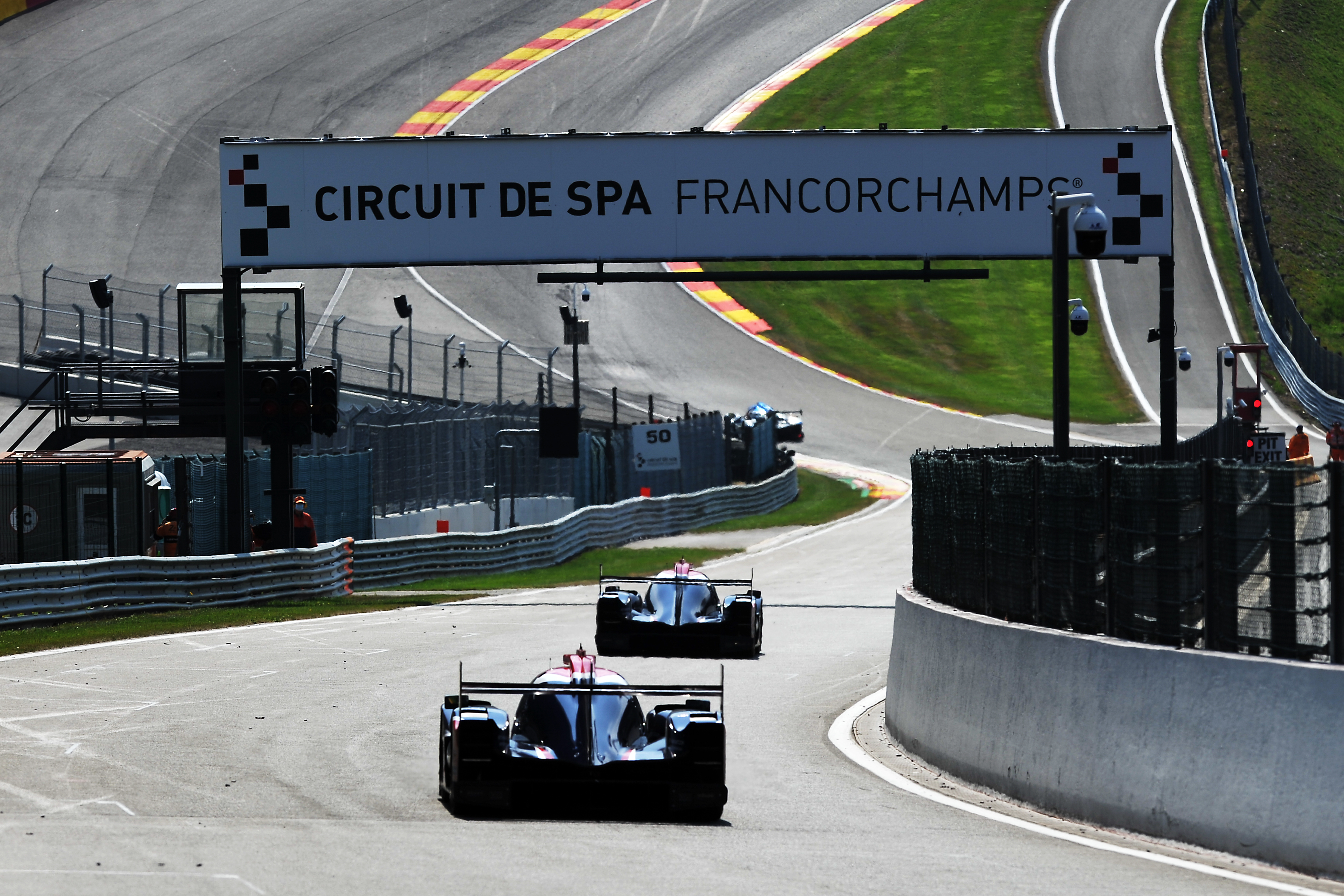 32 Oreca 07 - Gibson / UNITED AUTOSPORTS / William Owen / Alex Brundle / Job Van Uitert